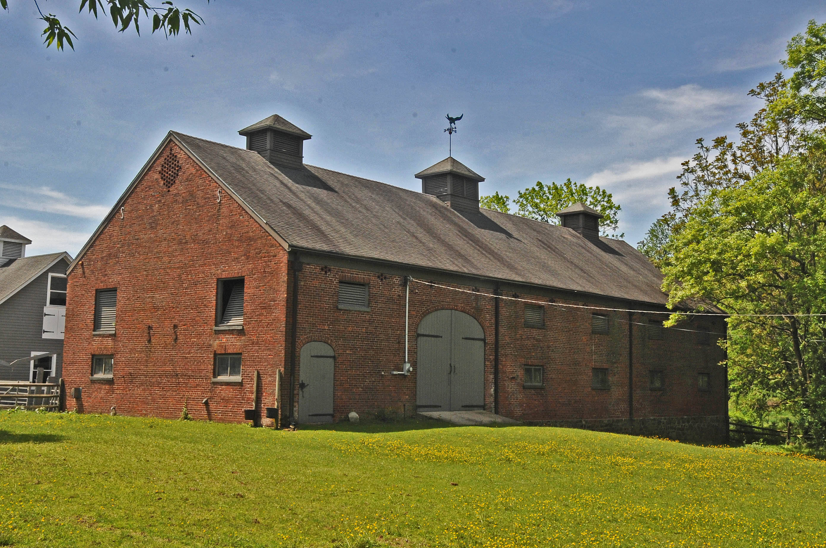 STABLE IS FROM THE 1830'S; THERE ARE OTHER BUILDINGS ON THE FARMSTEAD, SOME FROM THE 1830'S ALSO